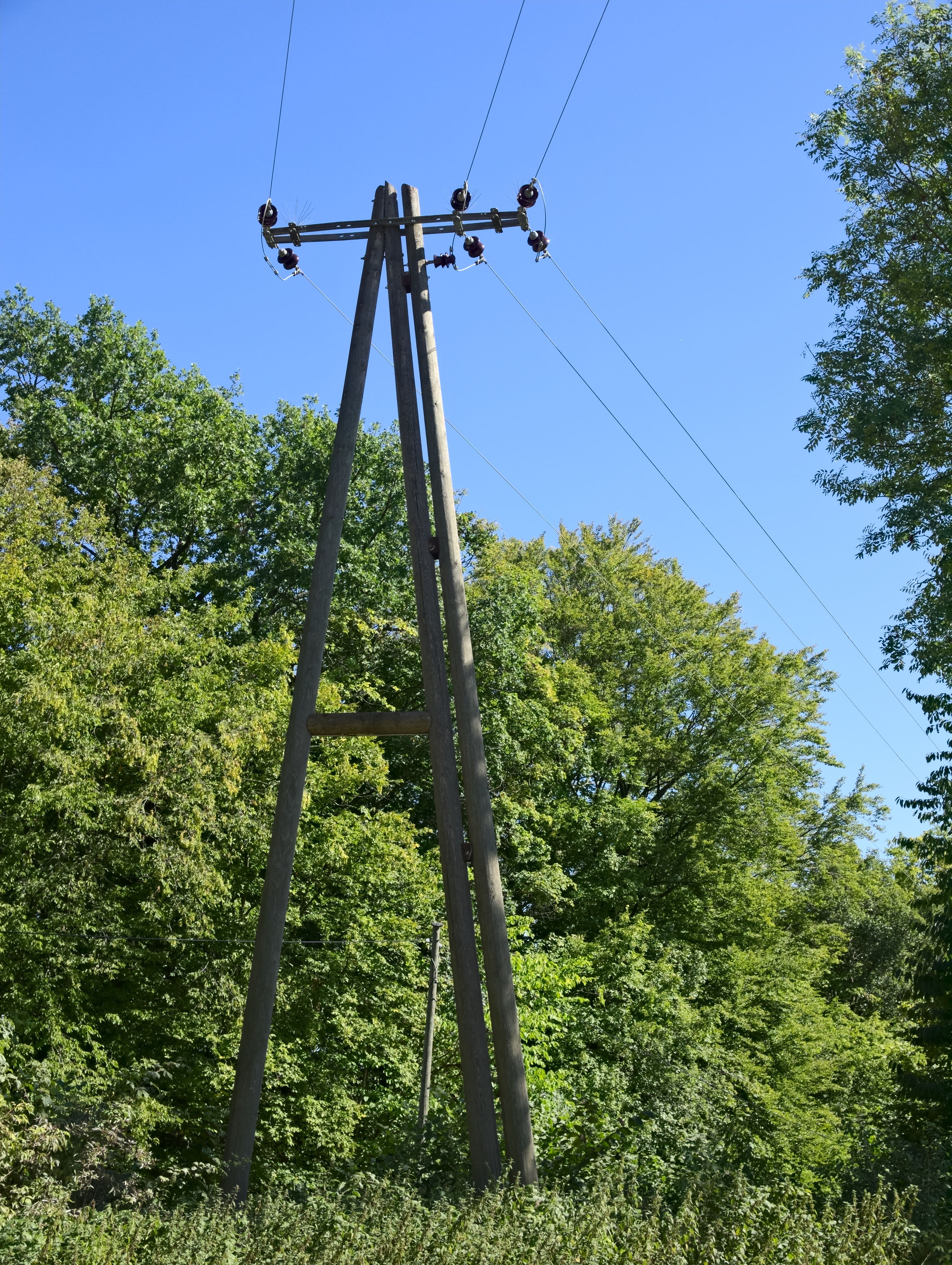 A-shaped wood pylon in Germany